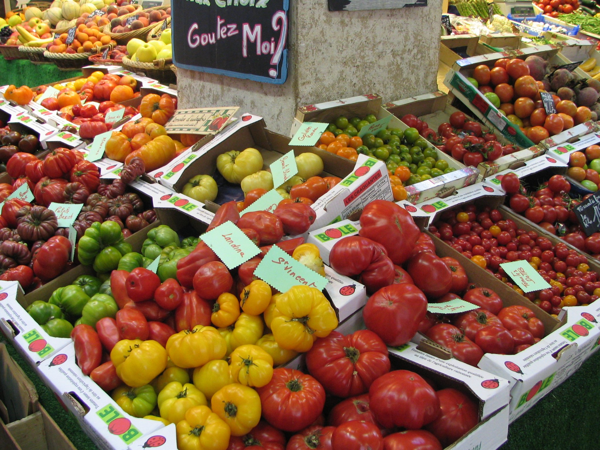 Old tomato varieties taken at Marché Beauveau, Place d'Aligre, Paris, France